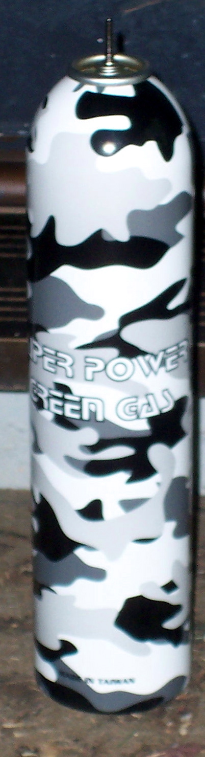 A can of Green Gas.